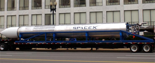 Falcon rocket in front of the FAA in Washington DC, Space Exploration Technologies, (SpaceX) (See talk page for GFDL permission notes and SpaceX contact information)